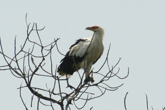 Gypohierax angolensis in Toubacouta, Delta du Saloum, Senegal.